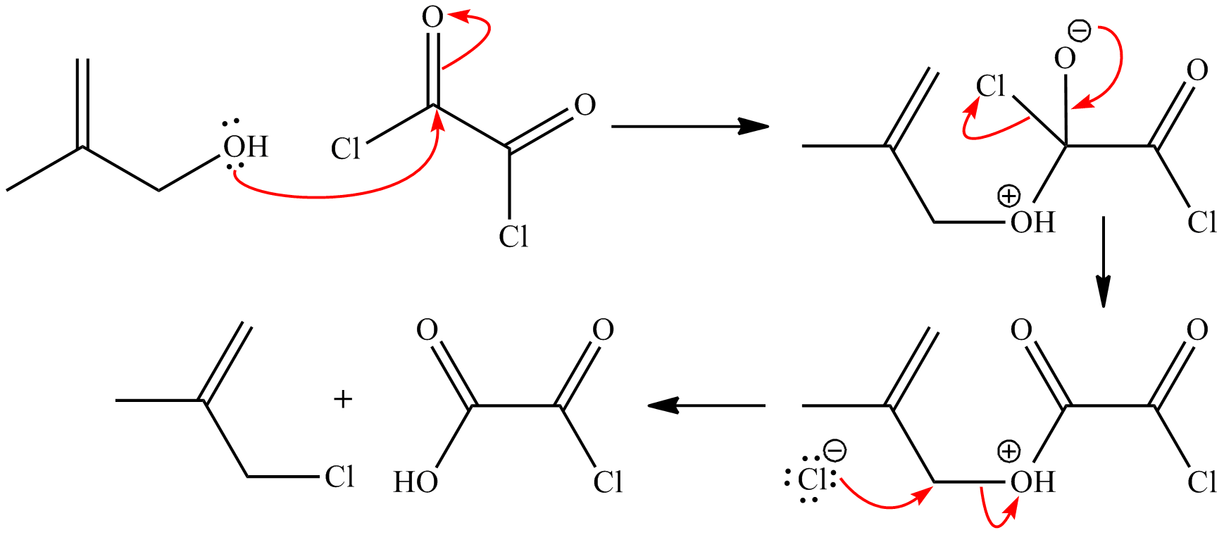 SN2 mechanism reaction between an alcohol and oxalil chloride to yield a chloroalkane